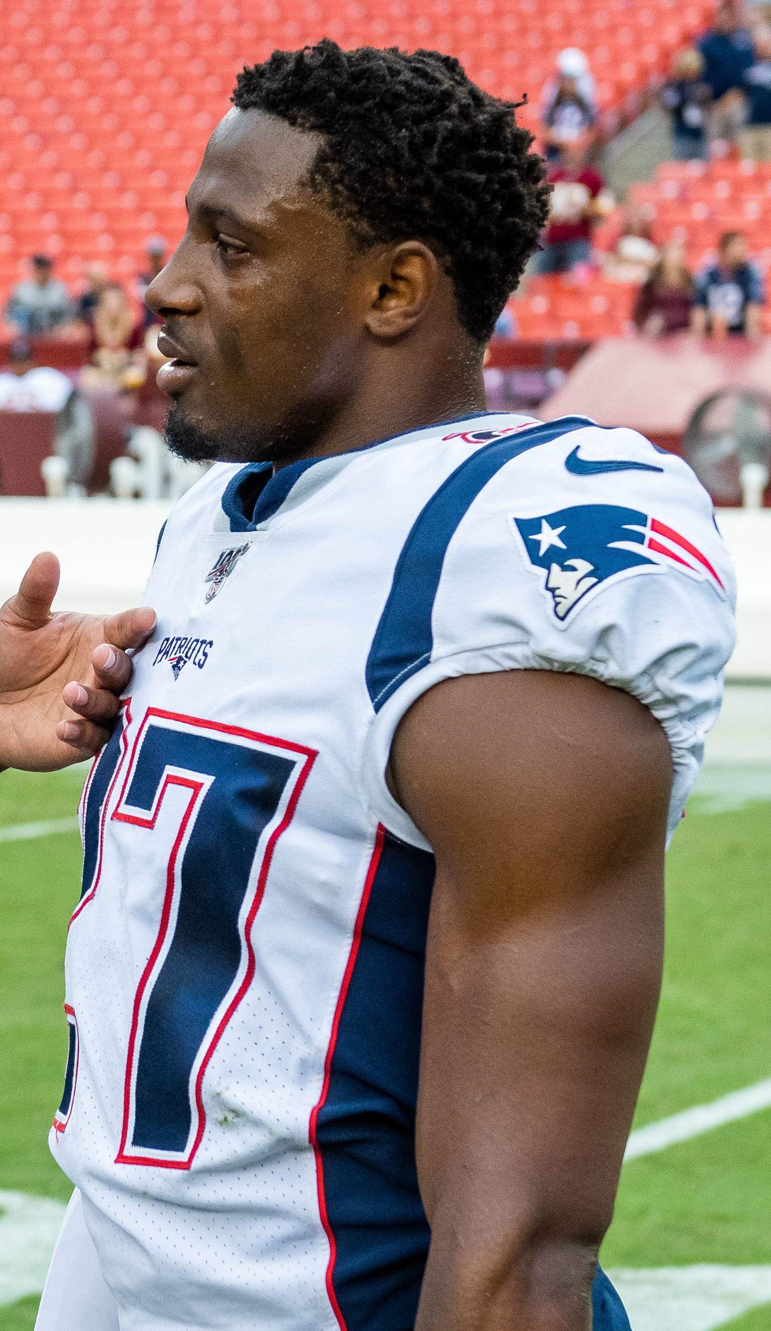 In 2019